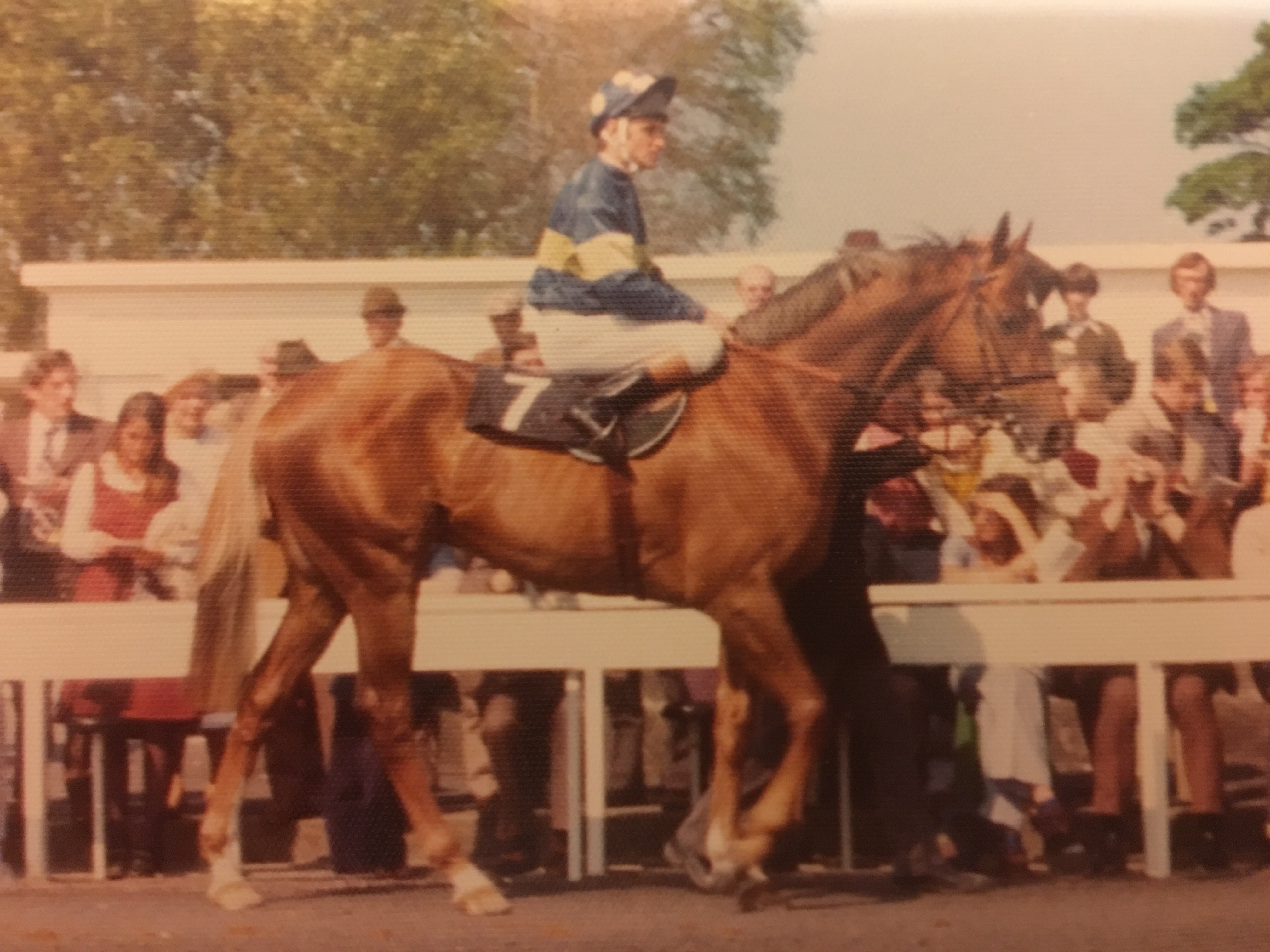 Grundy & Pat Eddery prior to the Irish 2000 Guineas at the Curragh in May 1975